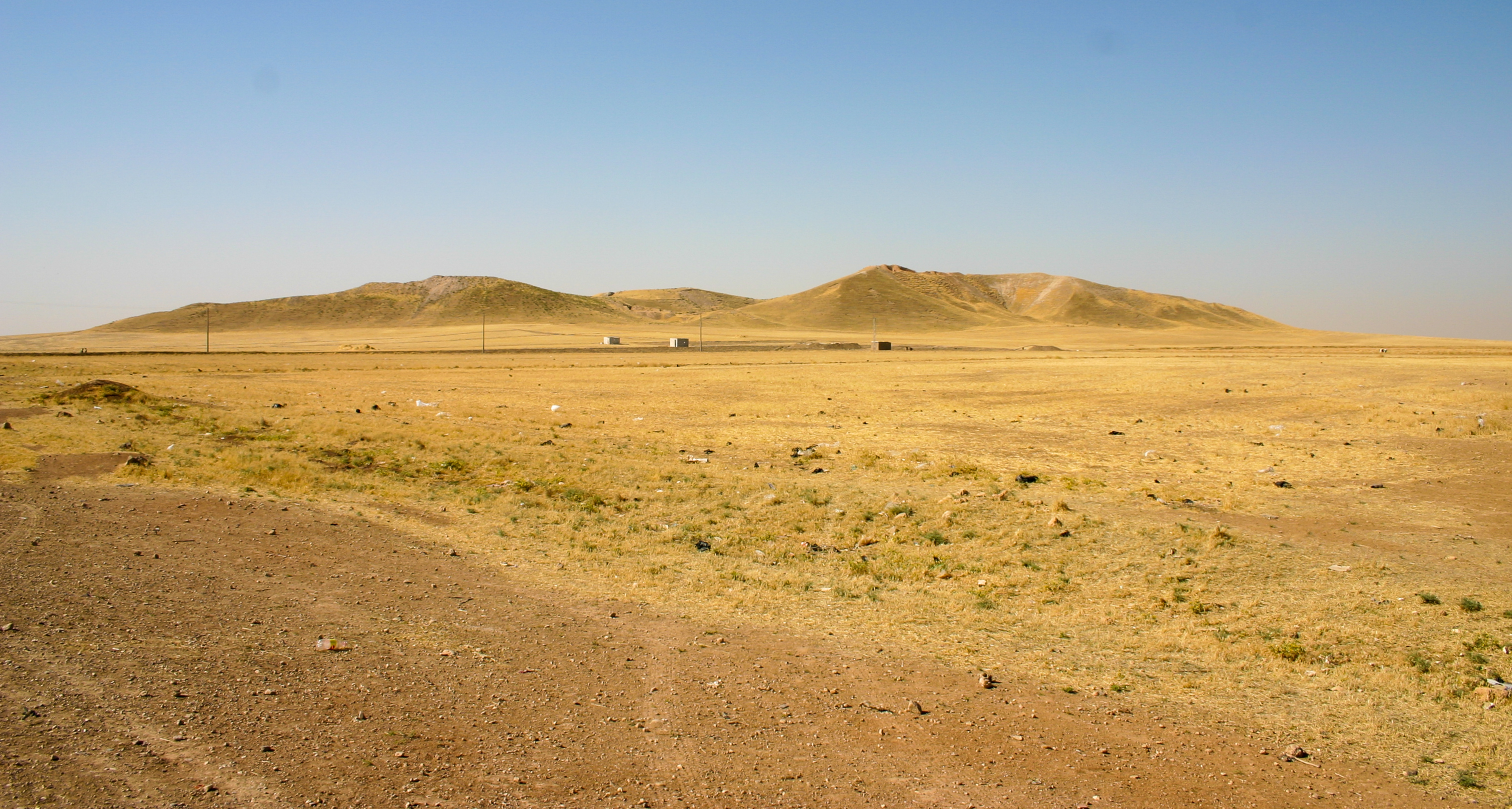 The important archaeological site of Tell Brak, Syria, as seen from a distance